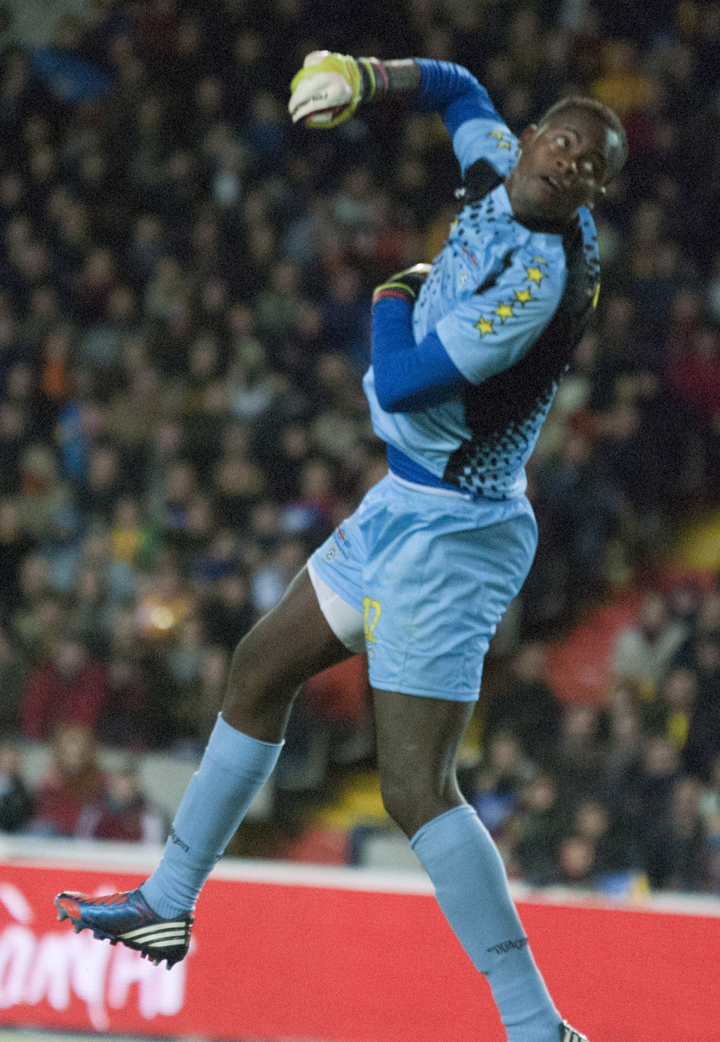 Cape Verdean international football player Fredson Tavares 'Fock' during friendly match Catalonia vs. Cape Verde